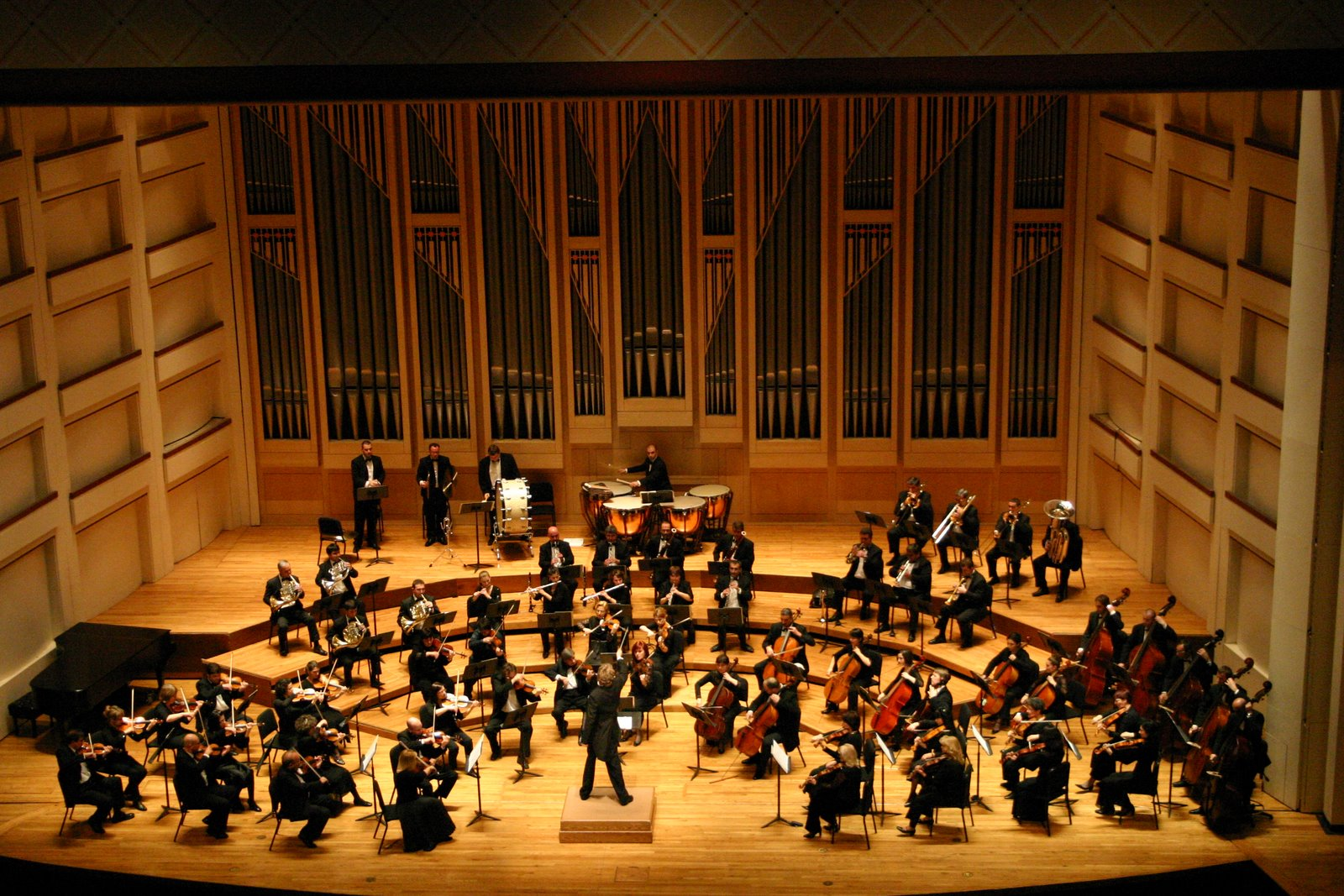 Dublin Philharmonic Orchestra performing Tchaikovsky's Symphony No. 4 in Charlotte, North Carolina, USA.